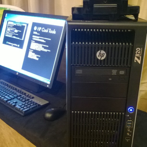 HP Z820 workstation with Intel Xeon processors and Nvidia Quadro graphics.